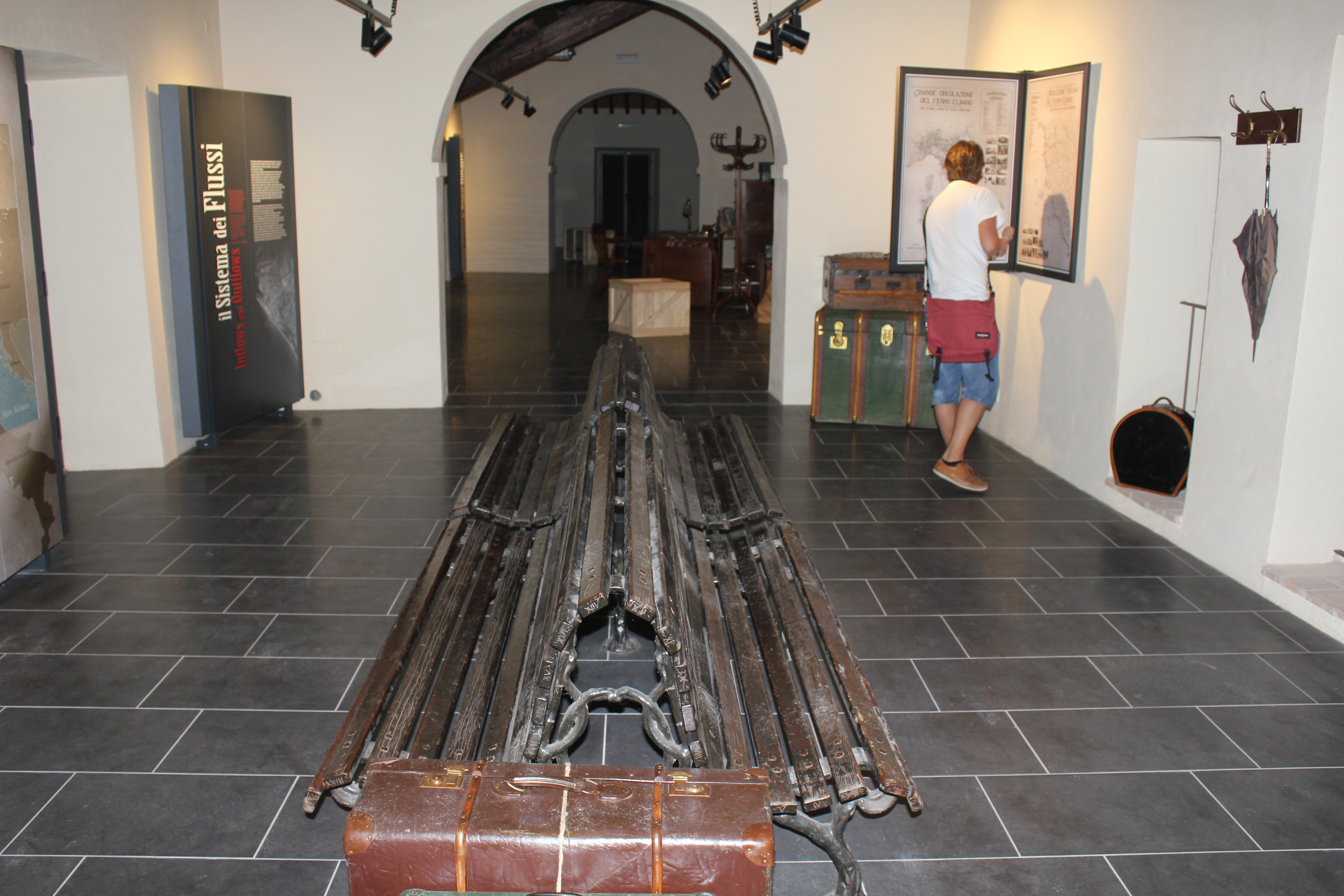 MAGMA Follonica